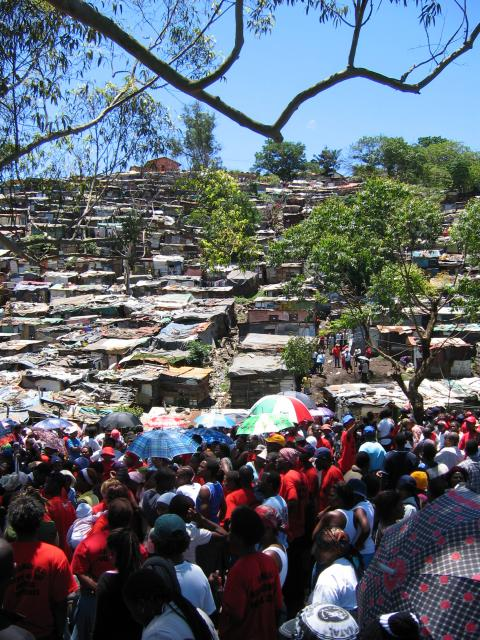 Copy left - this is my picture